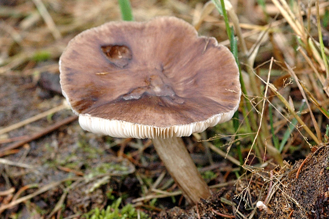 Pluteus cervinus from Commanster, Belgium. The determination of the species shown in this picture has been verified.